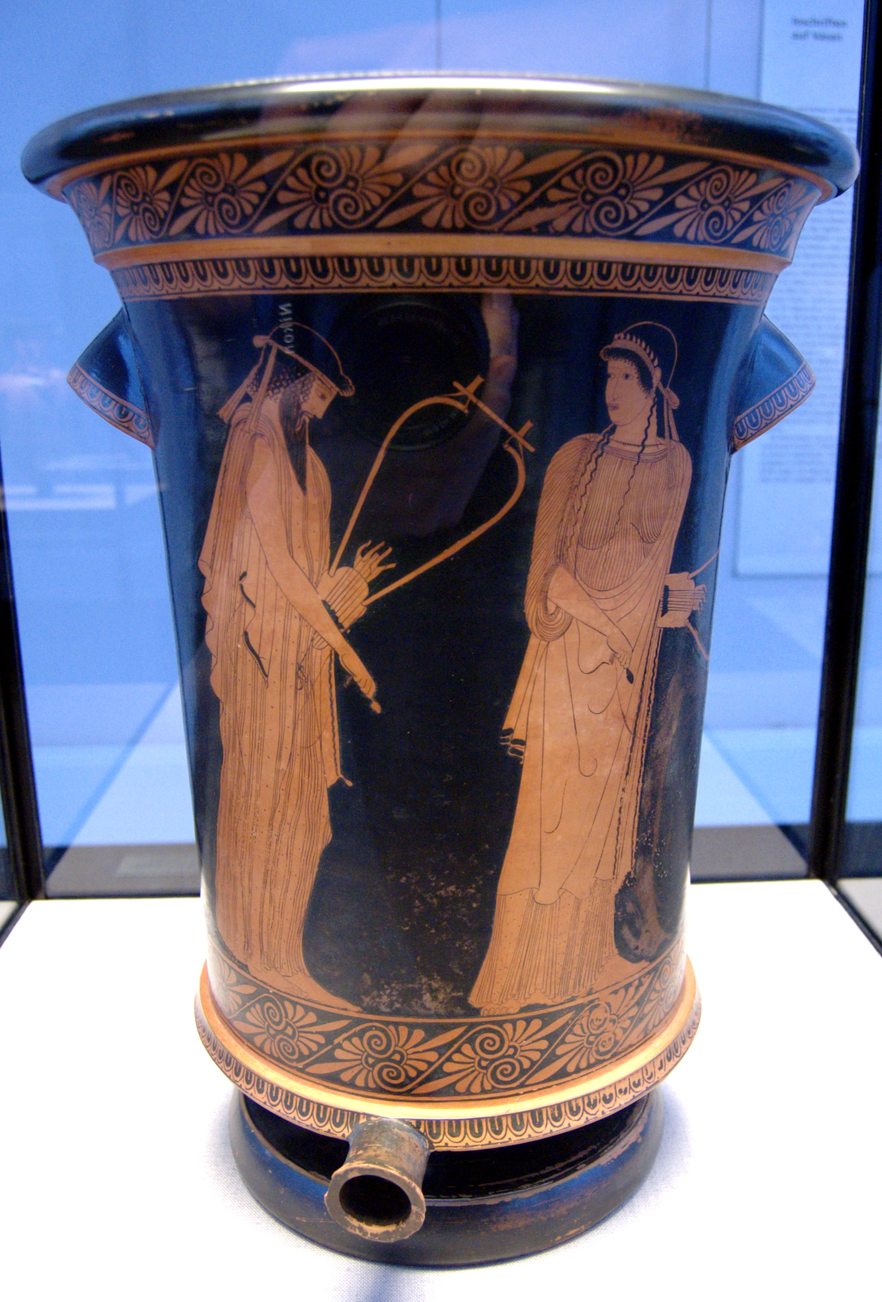 Alcaeus and Sappho. Side A of an Attic red-figure kalathos, ca. 470 BC. From Akragas (Sicily).